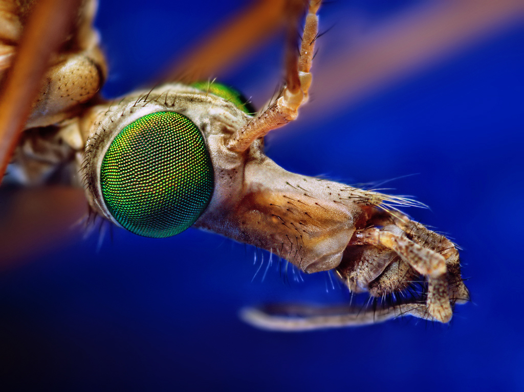 I know nothing at all about crane flies, so I can't really guess at any species with any degree of confidence. Found this one hanging out on the hood of my car. He/she seemed to be quite lazy, so I took a few photos. Thinking back on it all now, I wish I would have remembered to take a video, as the movements up close were quite interesting. Focus stacked (with some significant focus gaps) from 4 photos at about 4:1 with the 28mm at f/8 reversed on extension tubes.